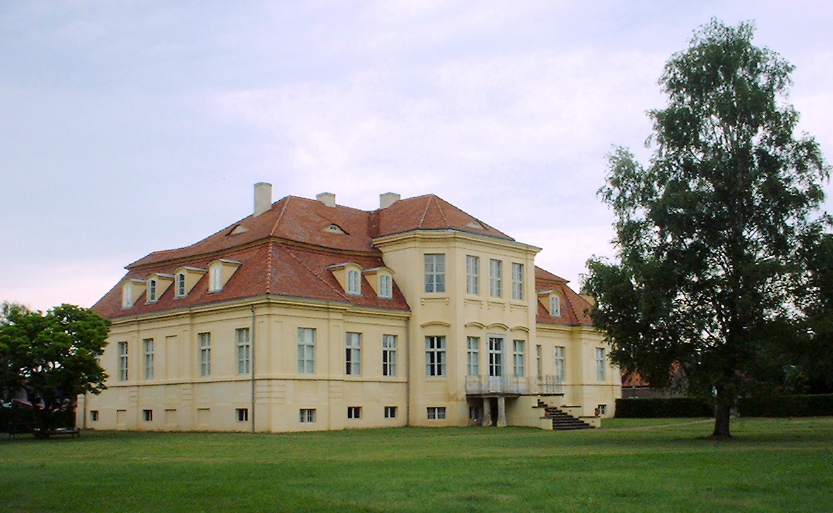 Manor house in Reckahn in Brandenburg, Germany